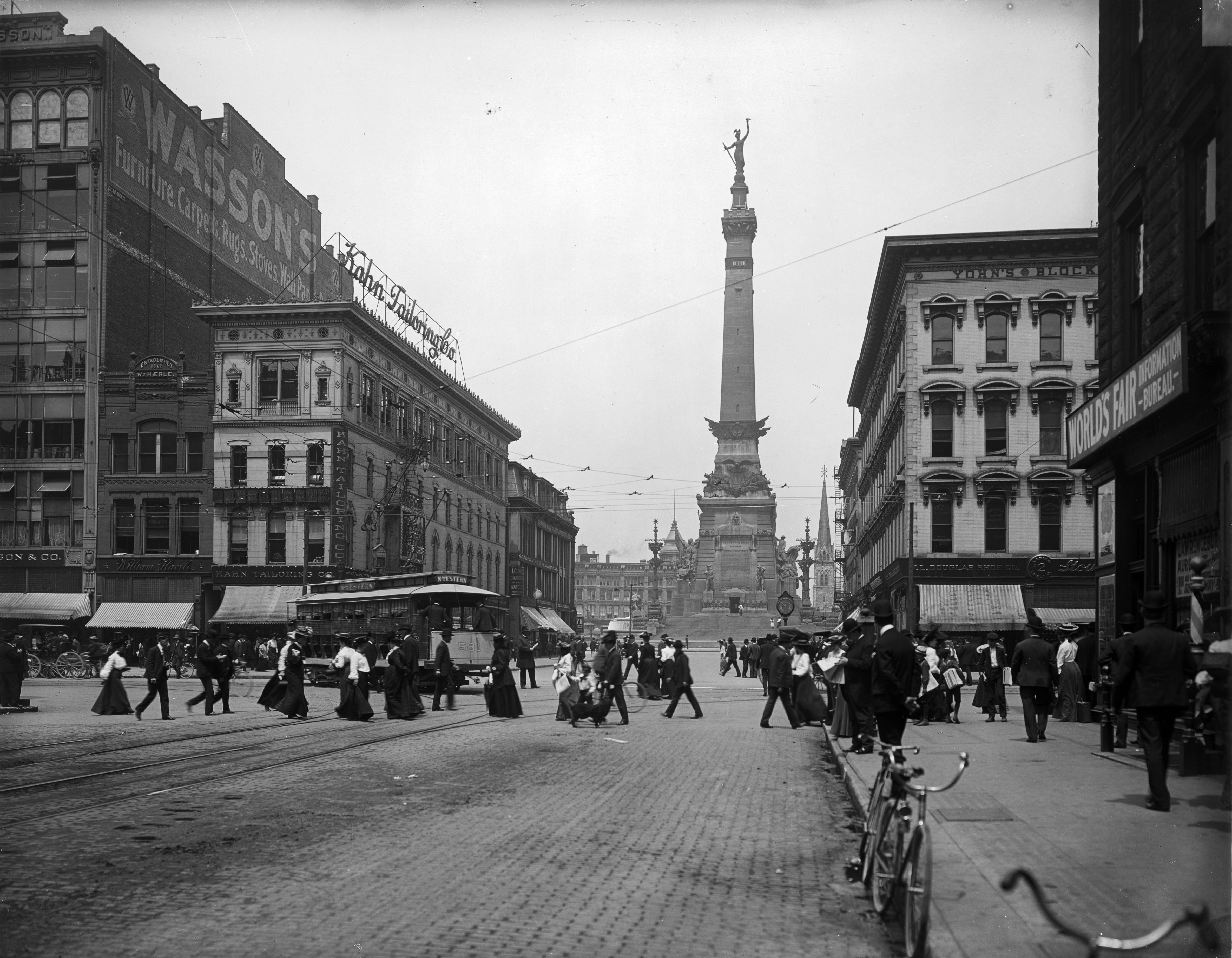 The Soldiers' and Sailors' Monument in downtown Indianapolis, as viewed from Washington Street facing Meridian Street in 1904